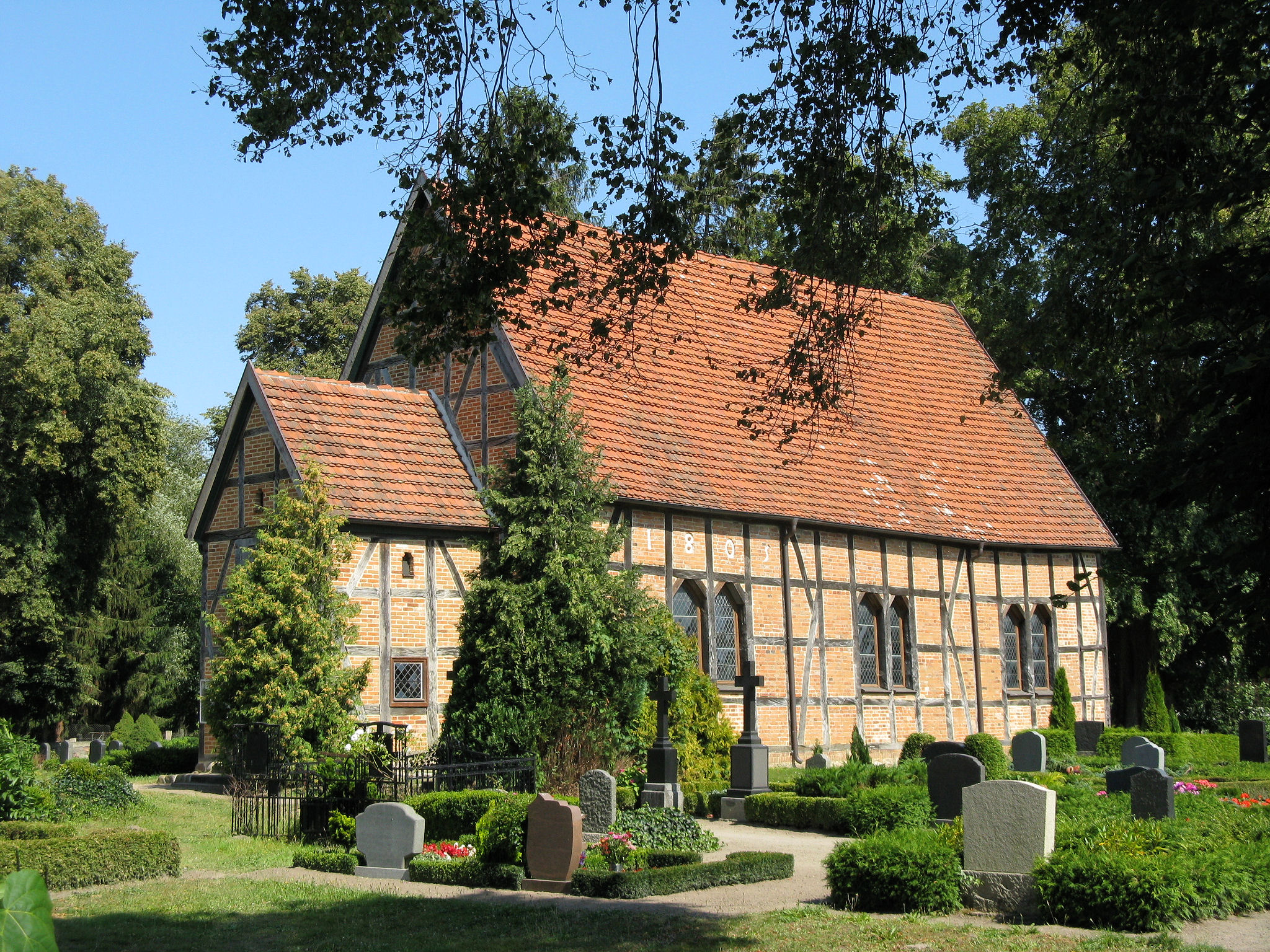 Church in Finkenthal, disctrict Rostock, Mecklenburg-Vorpommern, Germany